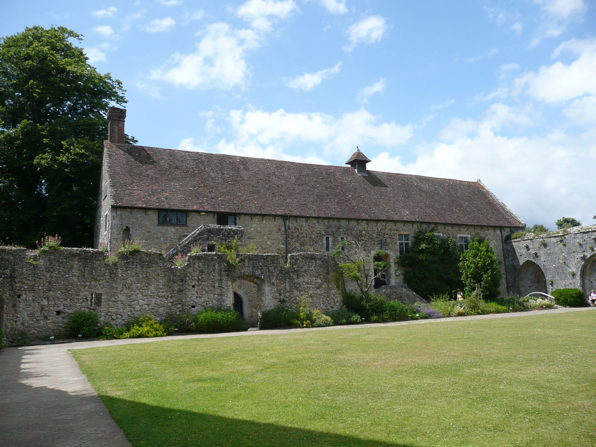 Beaulieu Abbey, Hampshire, England.